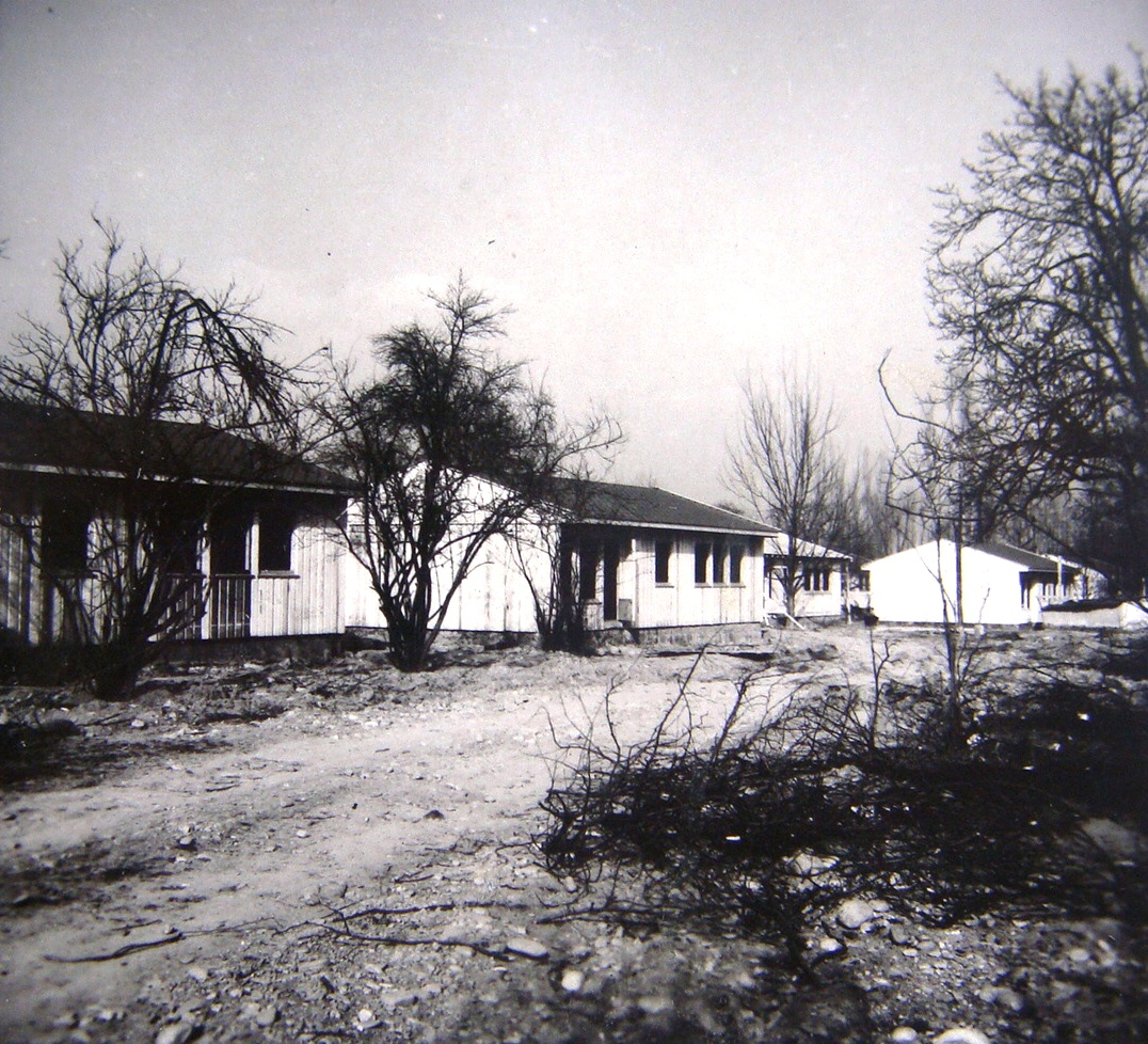 1963 Skopje earthquake: Residential buildings, a gift from the people of Norway, Dolno Nerezi, 1964 This media file is produced by Wikipedian in Residence in Category:Wikipedian in Residence at DARM in 2016.